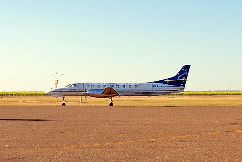 Image of an Airnorth Metro copied from Wikipedia Commons and digitally altered using Picasa software. Original image Airnorth Fairchild Metro 23 (Kununurra Airport) taken on 21 August 2007 by User:Bidgee. YSSYguy (talk) 00:47, 12 June 2010 (UTC)